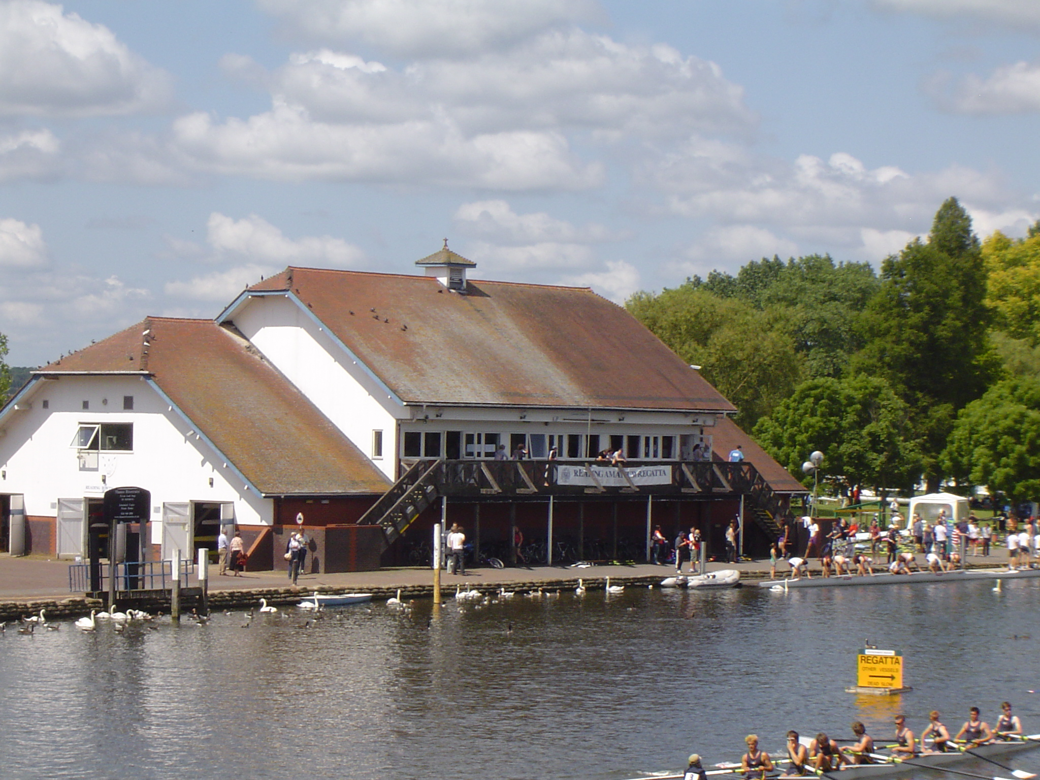 Reading Rowing Club boat house